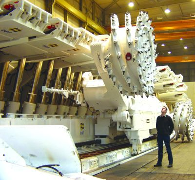 Longwall with hydraulic chocks, conveyor and shearer